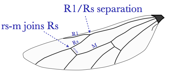 A simplified illustration of an ichneumonid hind wing. There are two labels helping illustrate the difference between ichneumonid and braconid hind wings. The vein names follow Gauld 1991 (The Ichneumonidae of Costa Rica).